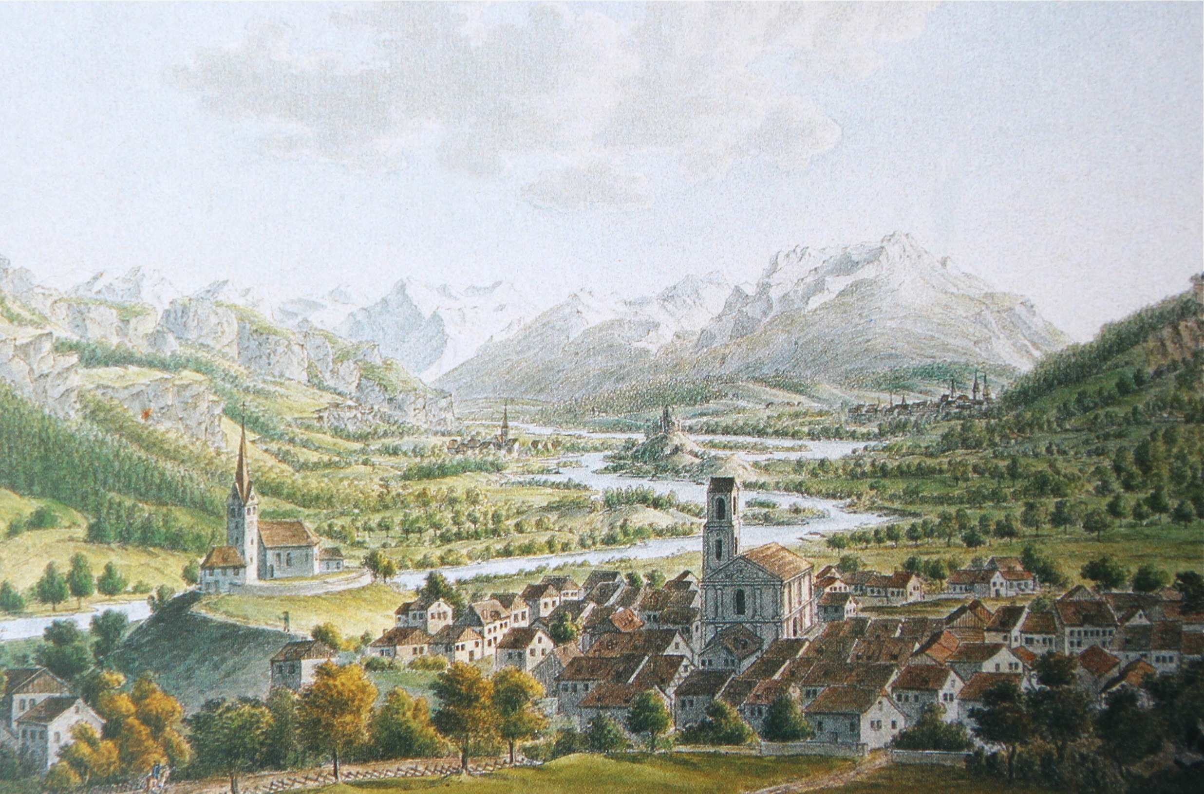 Kirche Sogn Gion (Domat/Ems) Domat/Ems Ansicht von SW um 1784, Radierung von Gabriel Ludwig Lory ( –1840) Alternative namesLory père, Gabriel Lory, Gabriel Ludwig LoriDescriptionSwiss painterDate of birth/deathbefore 21 June 176312 November 1840Location of birth/deathBernBernWork period1780-1840Work locationBern, Geneva, NeuchatelAuthority control VIAF: 2596993 ULAN: 500017857 LCCN: n81097786 GND: 119240106 SUDOC: 112981712 WorldCat . Links Kirche Sogn Gion (Domat/Ems), in der Mitte Felsberg mit der abgegangenen Burg Felsberg in der Mitte; rechts hinten Chur